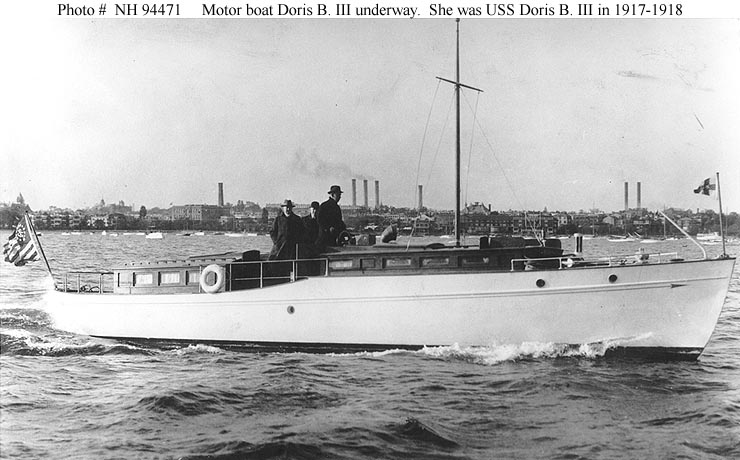 The motorboat Doris B. III prior to her United States Navy service as the patrol vessel